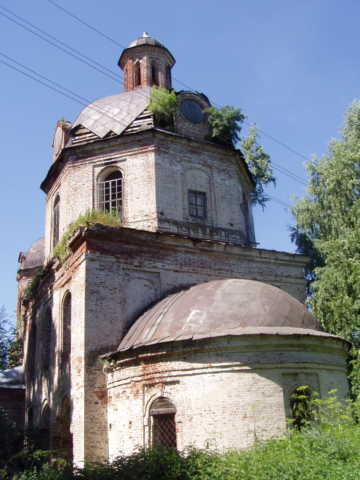 Ruined Orthodox church in Izh, Pizhanka rayon, Kirov oblast, Russia